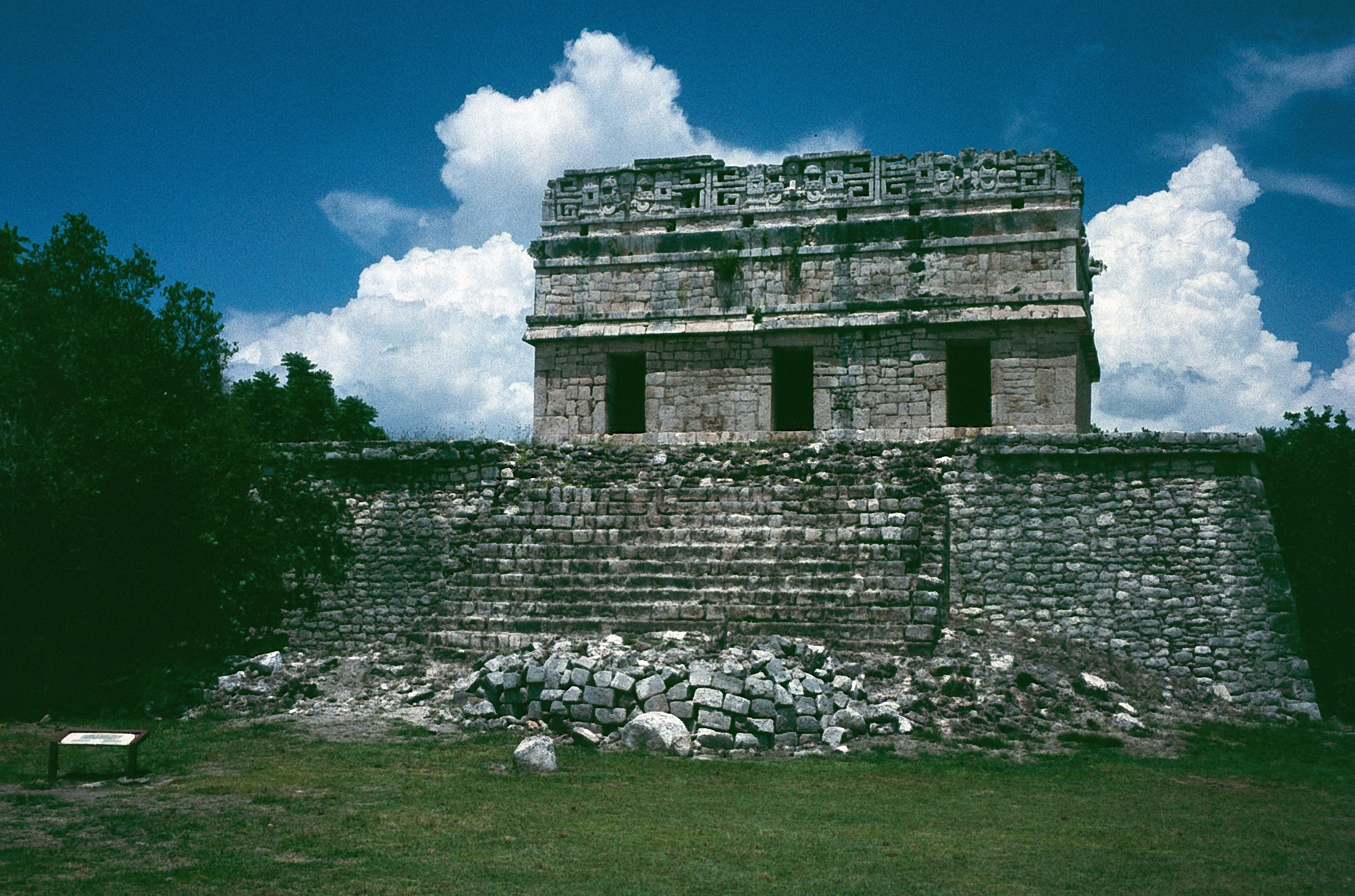 Chichen Itza, Yucatan, Mexico: Casa Colorada